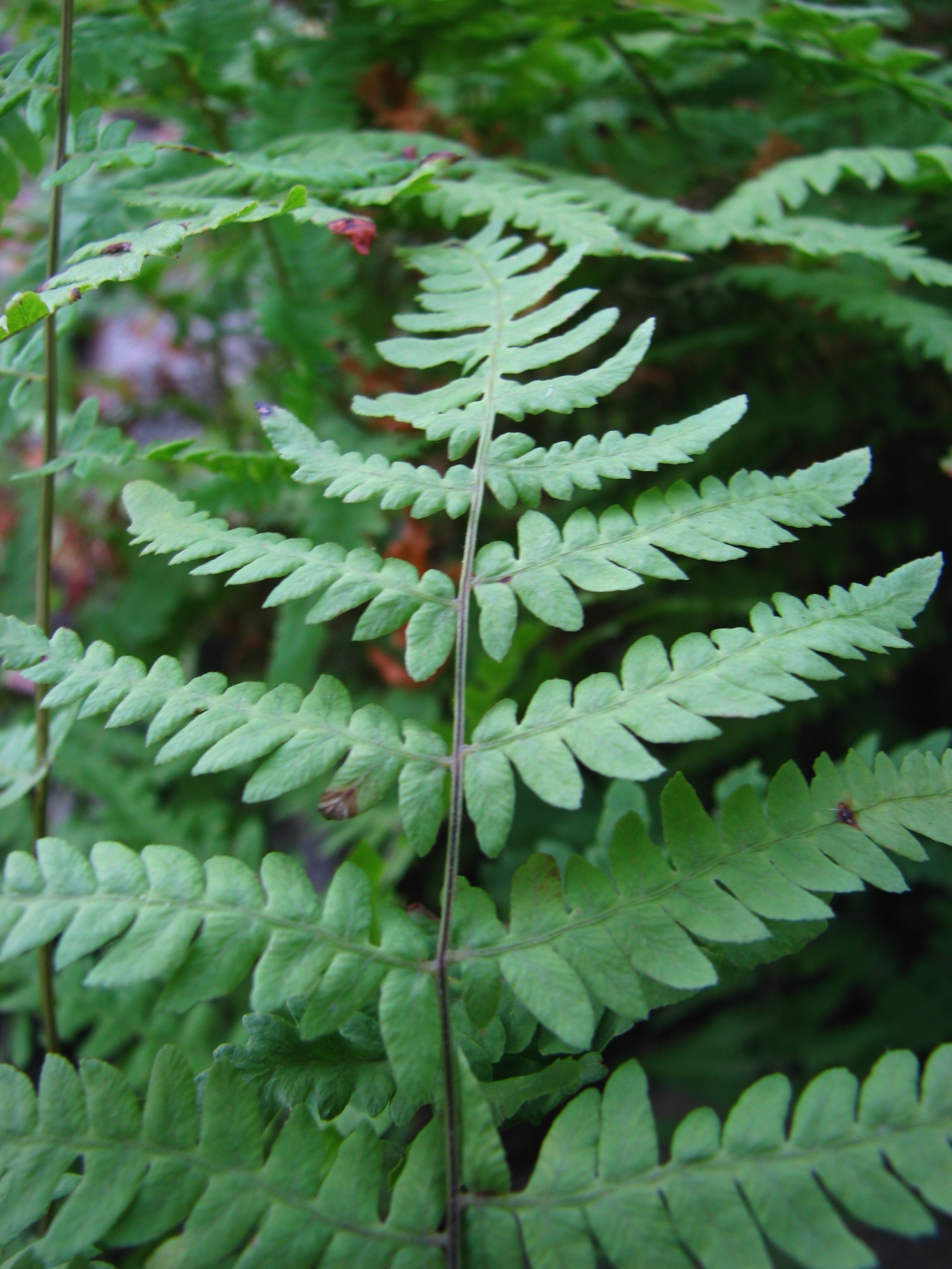 Eastern marsh fern Thelypteris palustris, cultivated in Wrocław University Botanical Garden, Poland.